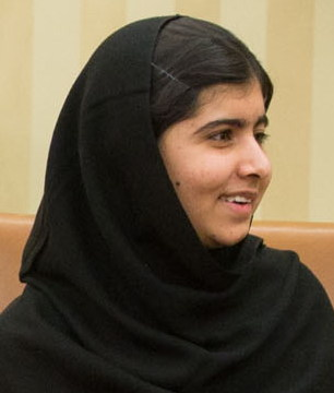 crop of Malala Yousafzai from photo in the White House